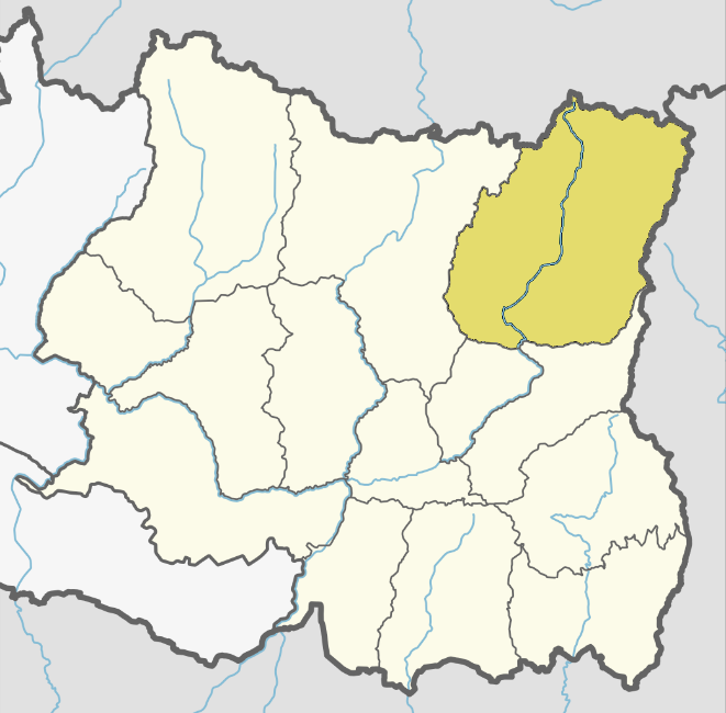 Taplejung district